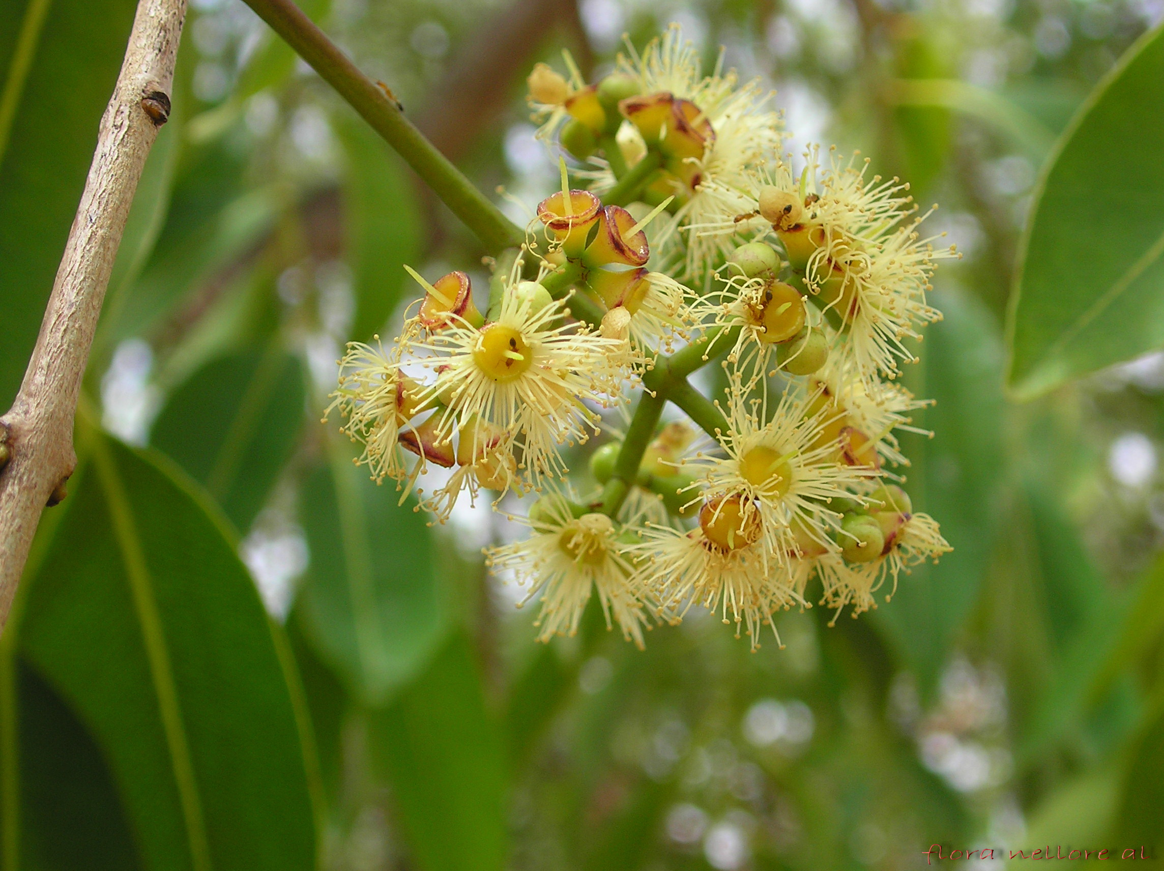 Family:Myrtaceae Local name(Telugu): Nerudu, Black berry Distribution: Found in dry forests, also planted along roadside and gardens.Limited to Indian subcontinent and Australia. 10-15 mts tall trees, bark irregularly flacking, Leaves elliptic, acute, dark green shining above, dull beneath, coriaceous; Flowers 1cm across, greenish white in terminal panicles, Calyx tube turbinate, limb 4 lobed, petals 4 rounded, usually falling off as a calyptrate lid; stamens numerous, free, ovary 2 celled, style1 stigma simple; Fruit dark purple colored 1 seeded berry. Reference: Flora of presidency of Madras by J.S Gamble, ENVIS, Flora of Nellore district By B.Suryanarayana &A.S Rao Fruit edible, wood is also used in house building and agriculture purpose.